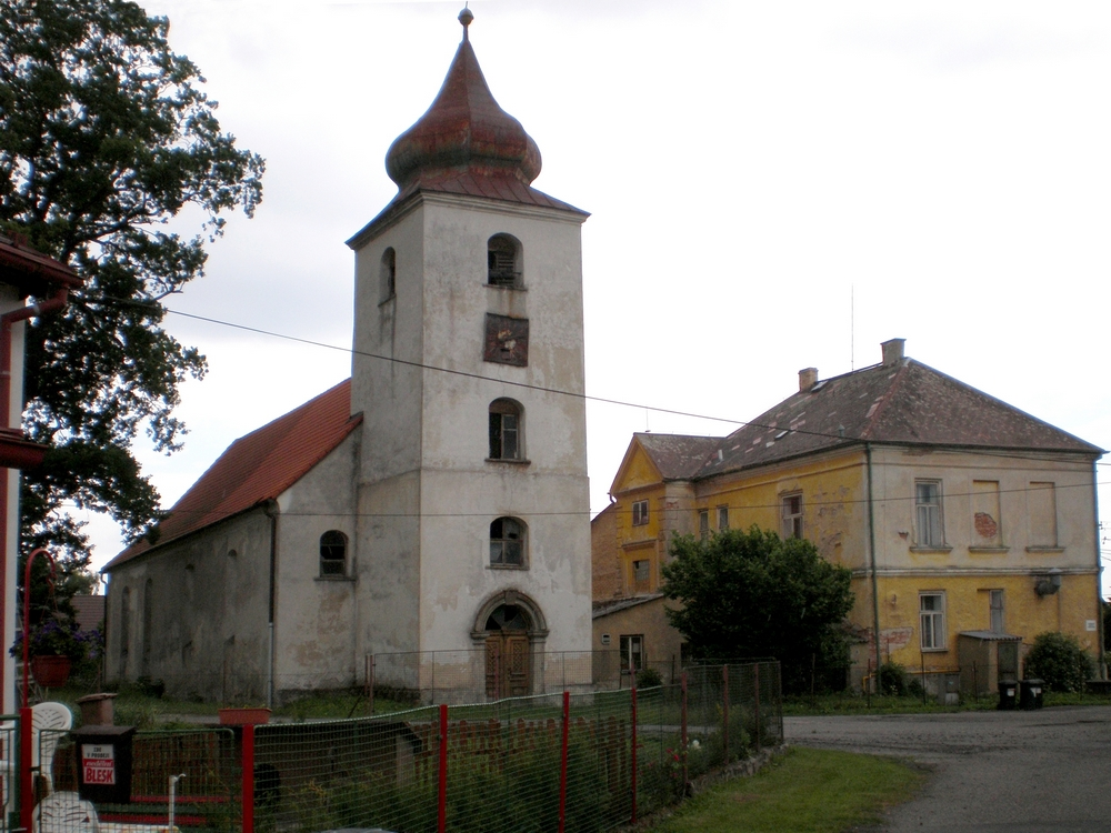 Křižovatka, Cheb Region, Czech Republic.